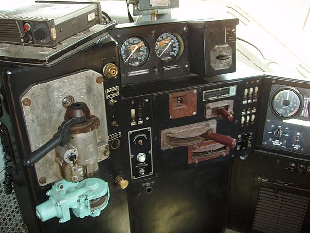 Engineer's controls for the EMD DDA40X Locomotive. net/